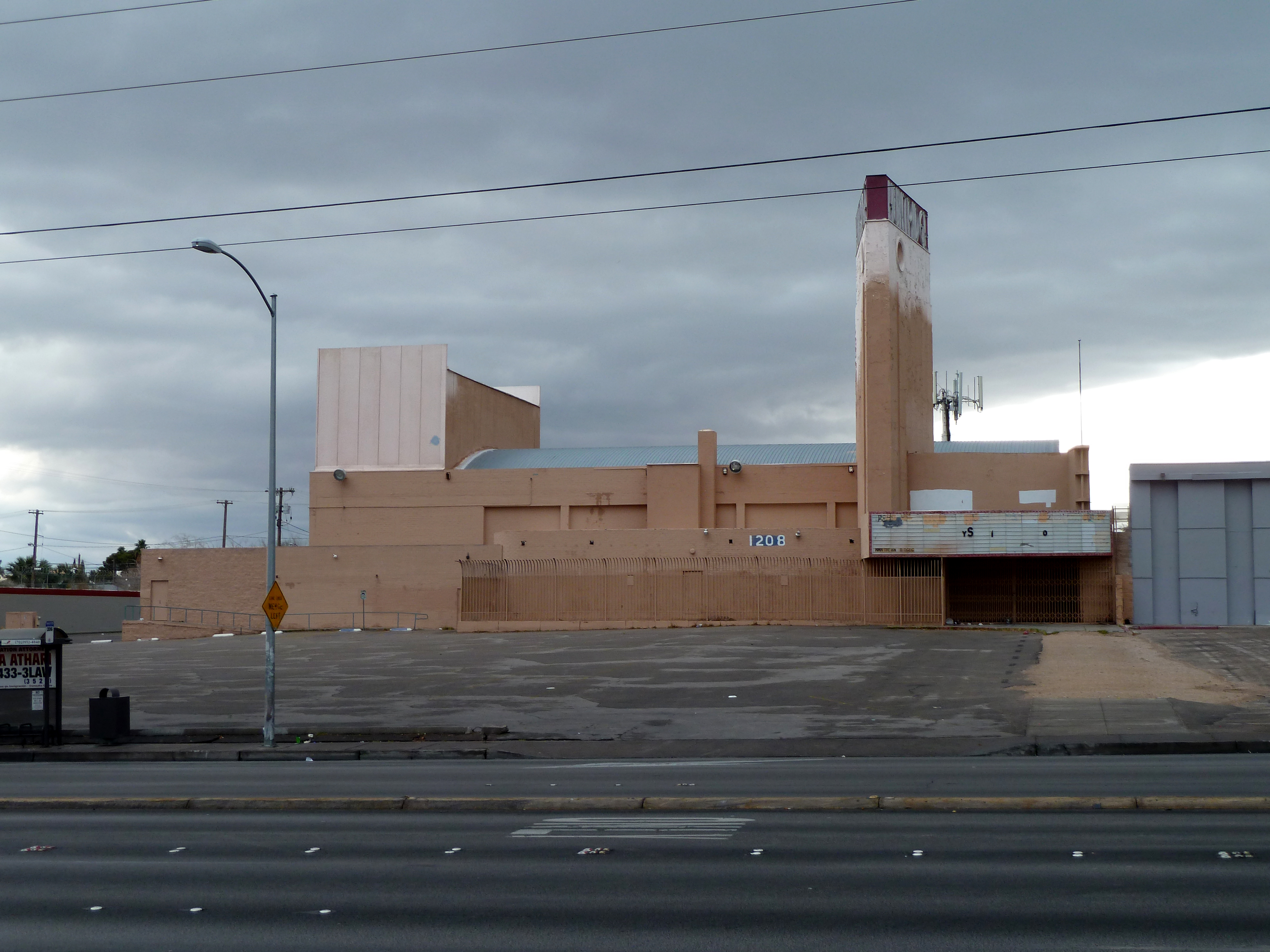 Huntridge Theater, Las Vegas, Nevada, USA.